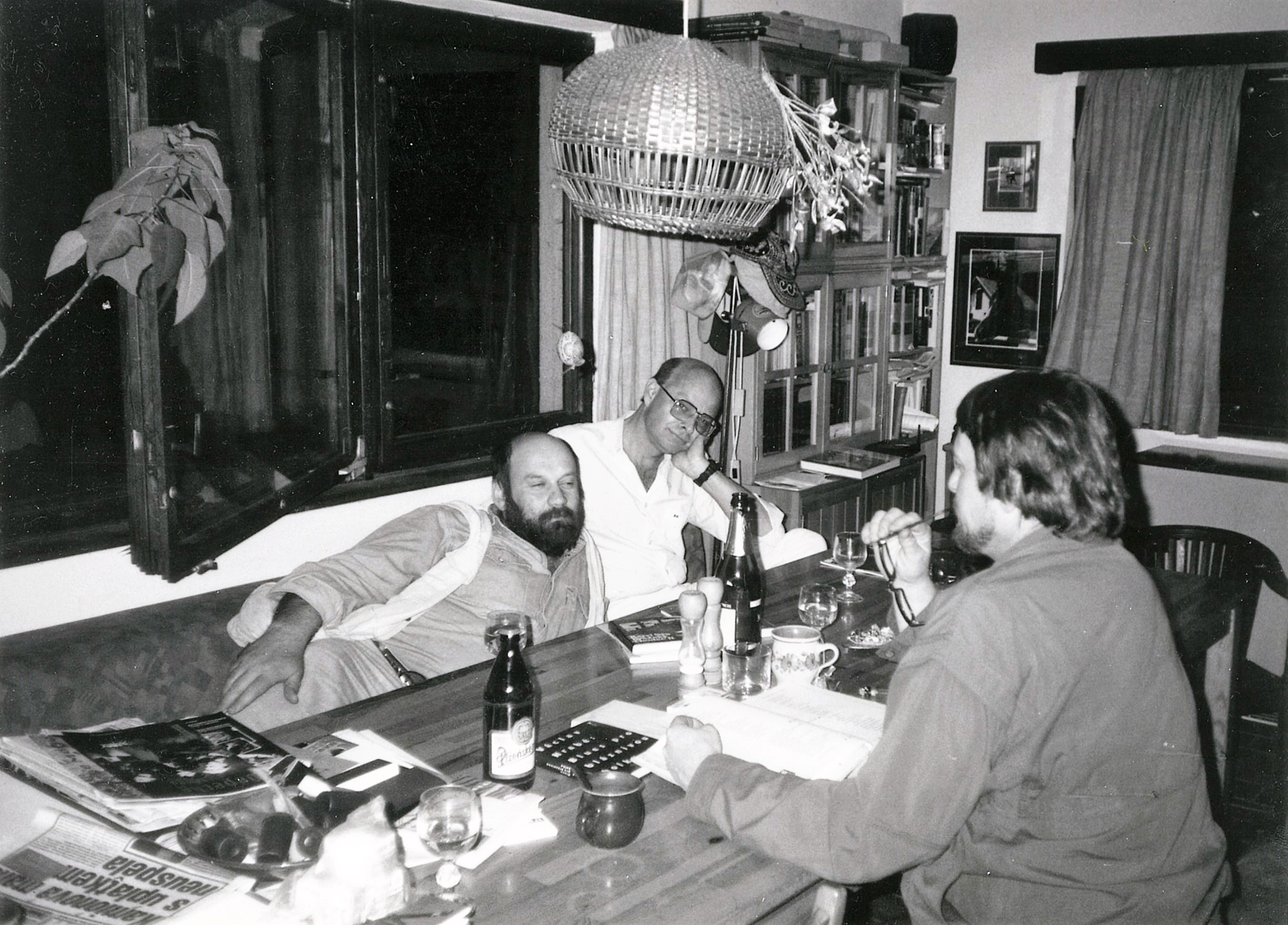 Ludvík Hess, Jaromír Pelc and Jiří Žáček, 1990.